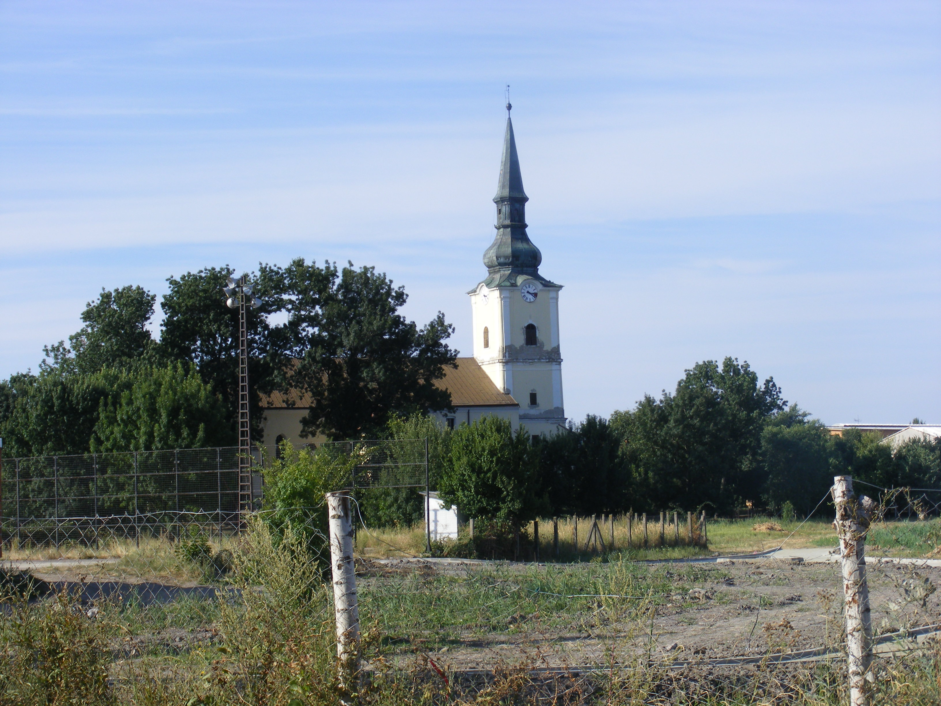 The reformed church in Nádudvar.